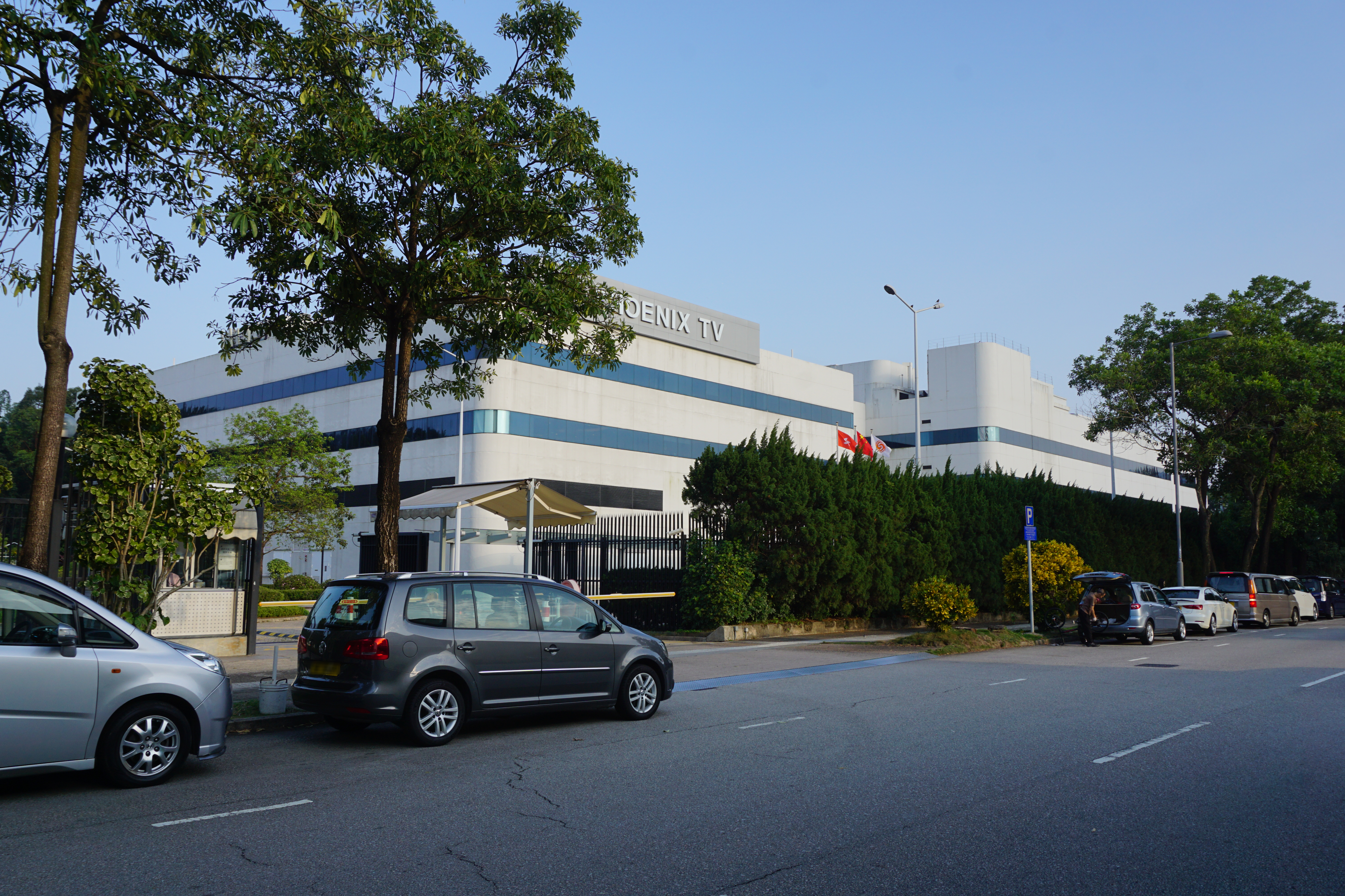 Phoenix Television in Tai Po, Hong Kong.